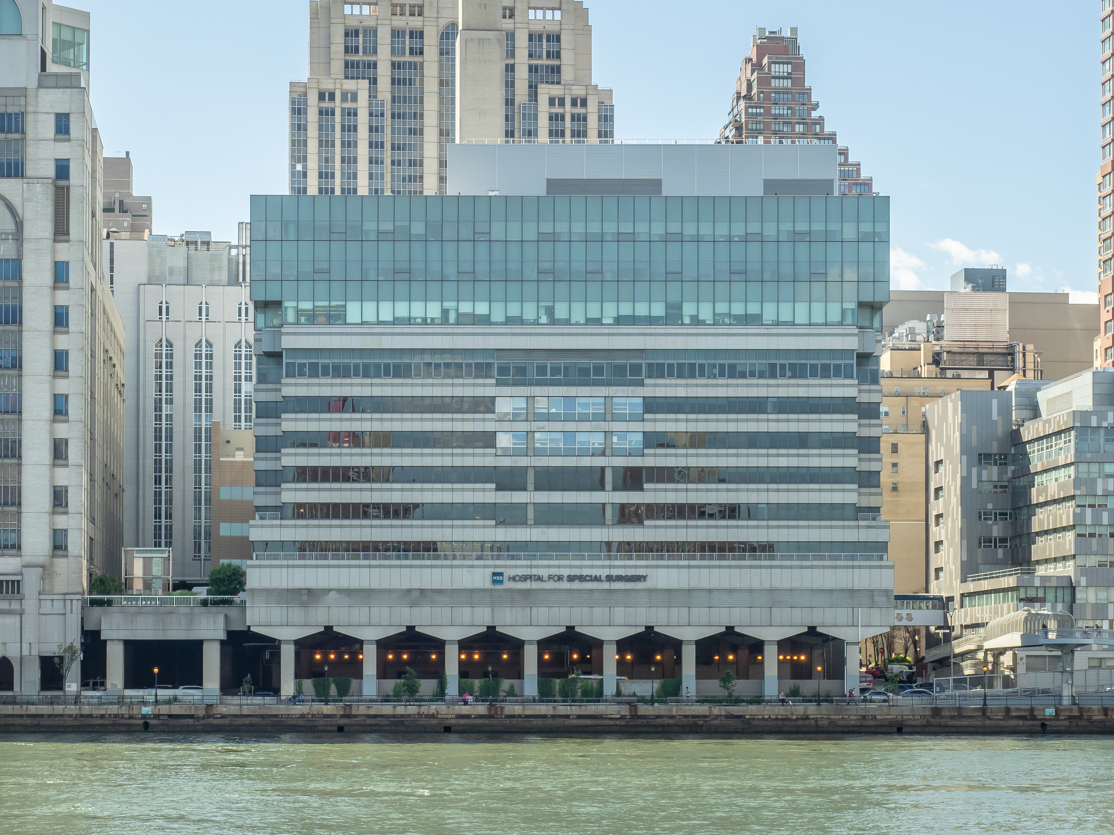 Upper East Side, NYC (shot from Roosevelt Island)